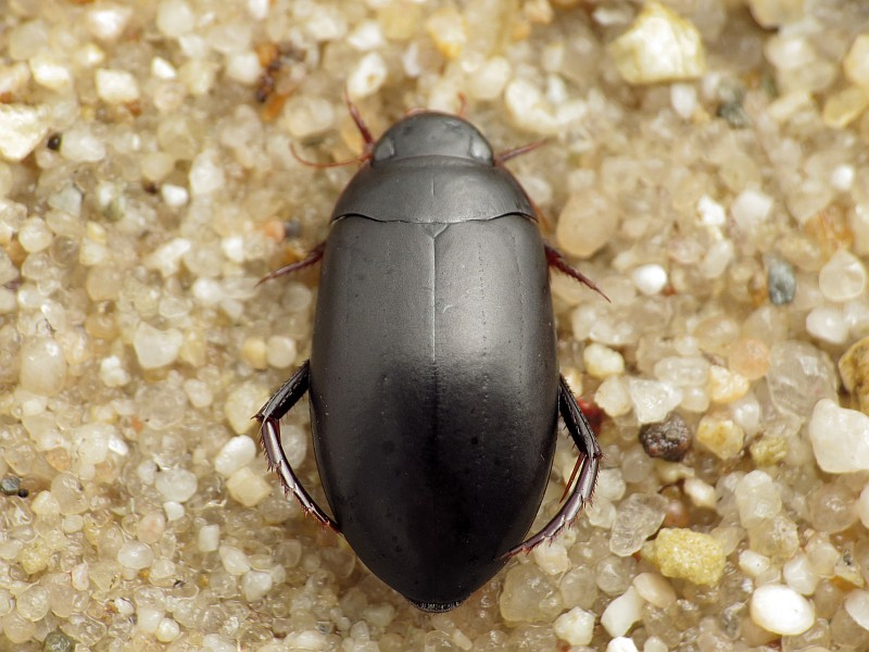 Rhantus grapii (Dytiscidae) - (female imago), Buren (Gld.) - Tichelgaten, the Netherlands